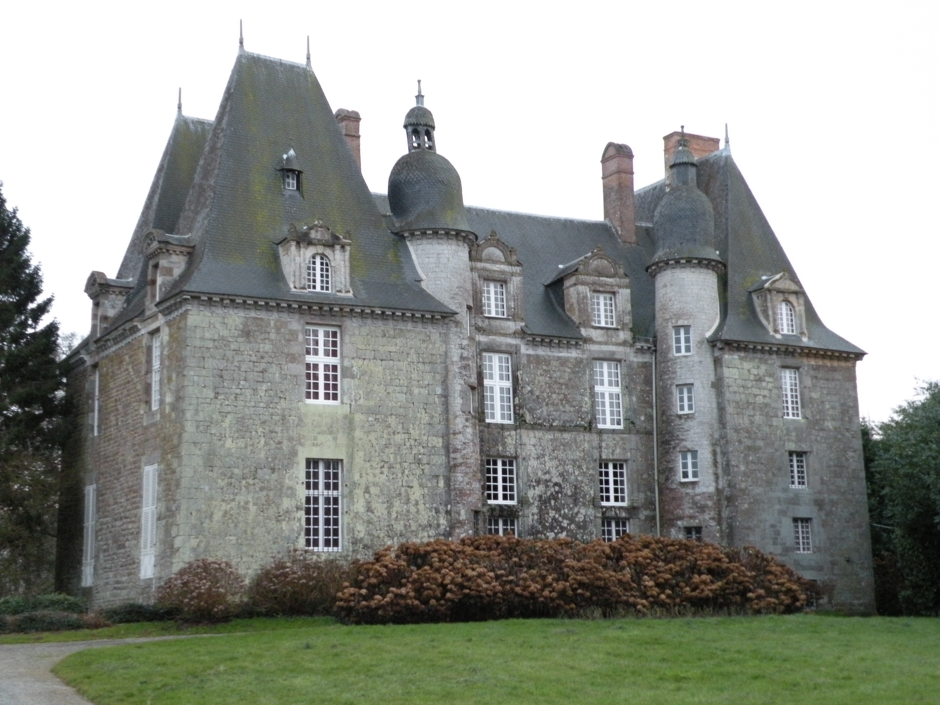 Castle of La Chapelle-Chaussée